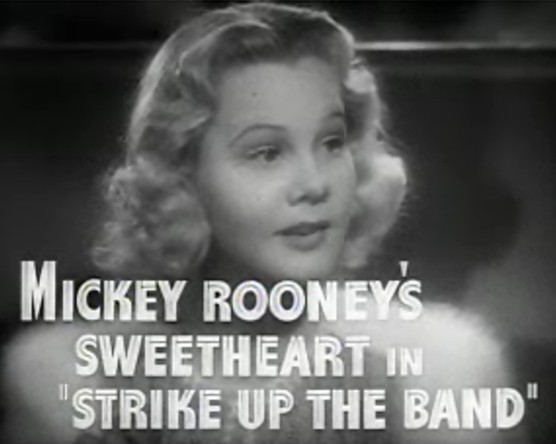 Cropped screenshot of June Preisser from the trailer for the film Gallant Sons